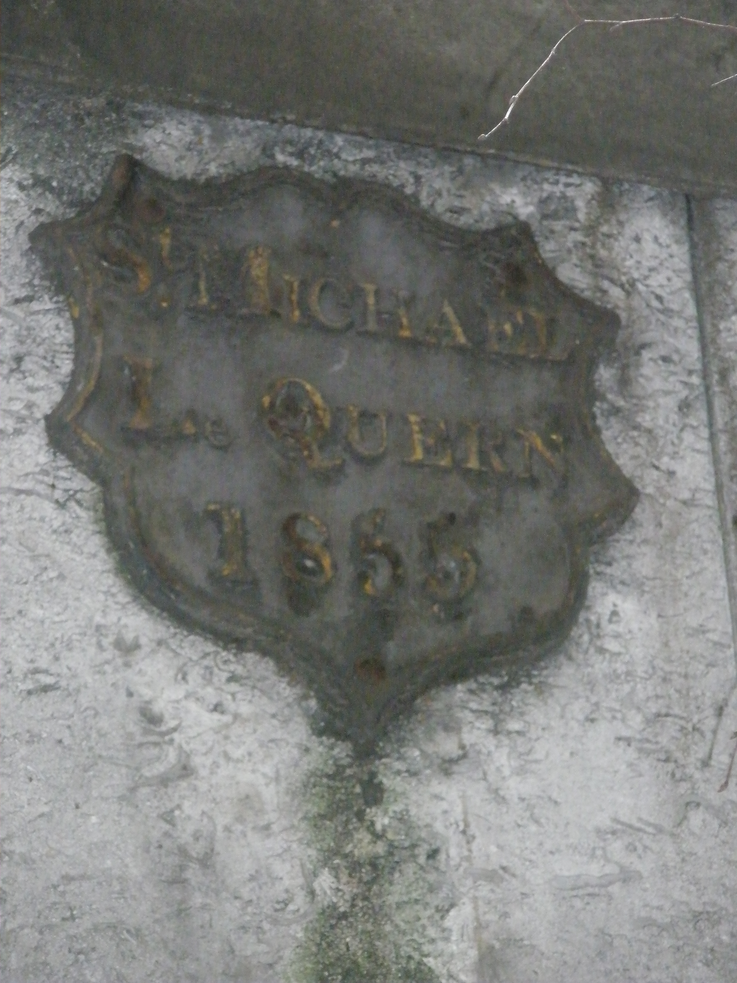 Plaque on side of St Paul's Choir School, London